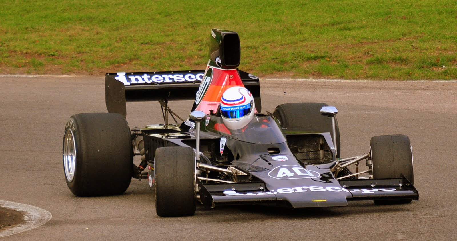 The Interscope-liveried Lola T332 Formula 5000 car rounds the hairpin at Mallory Park, October 2009.